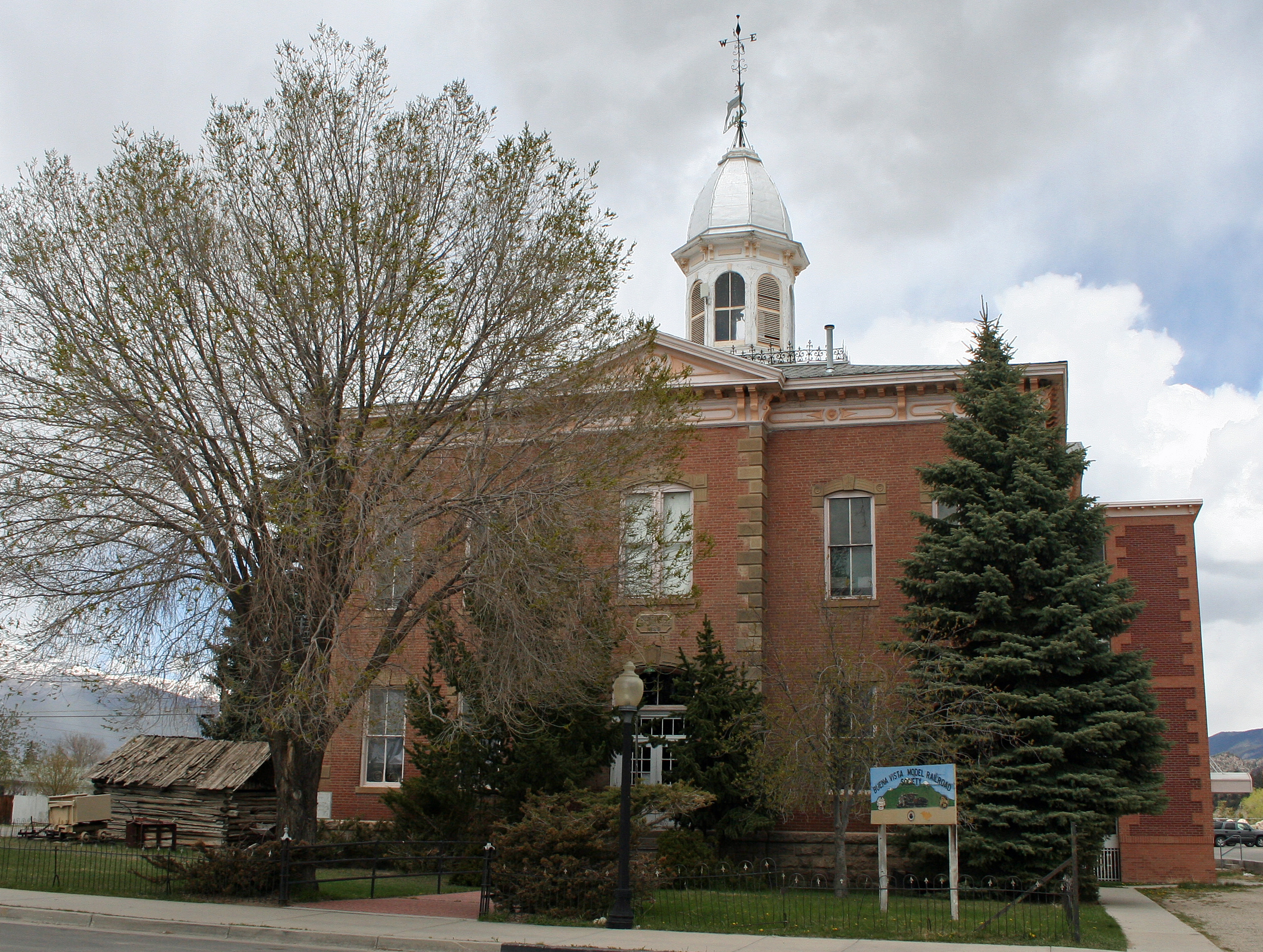 The Chaffee County Courthouse and Jail Buildings, located at 501 East Main Stret in Buena Vista, Colorado. The complex is listed on the National Register of Historic Places in Chaffee County, Colorado.